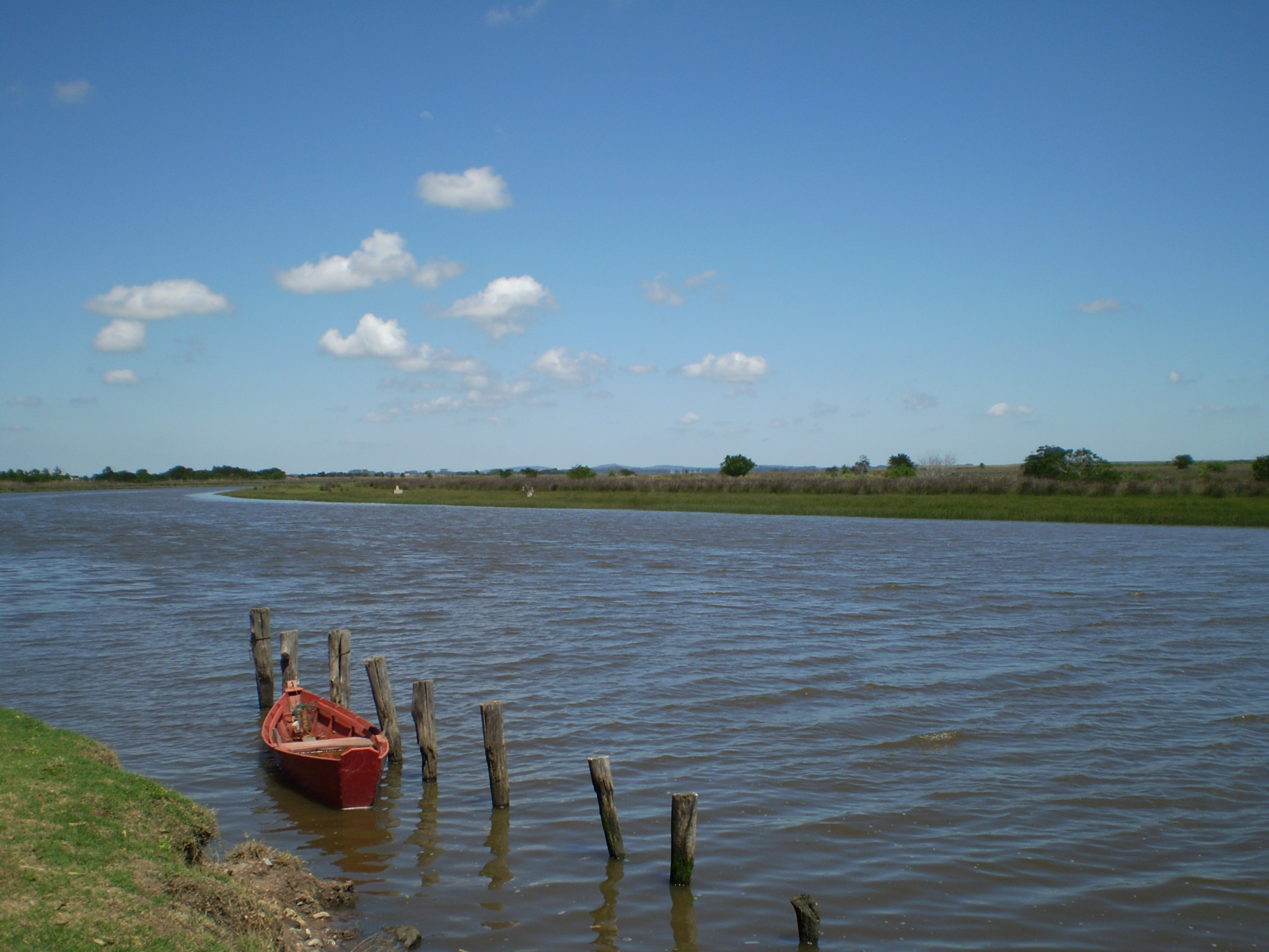 Arroio Chuí on the southest point of the Brazil, view from Chuy, Uruguay.